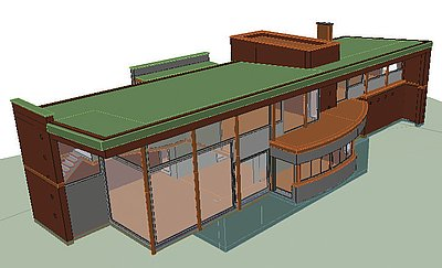 EcoDesigner